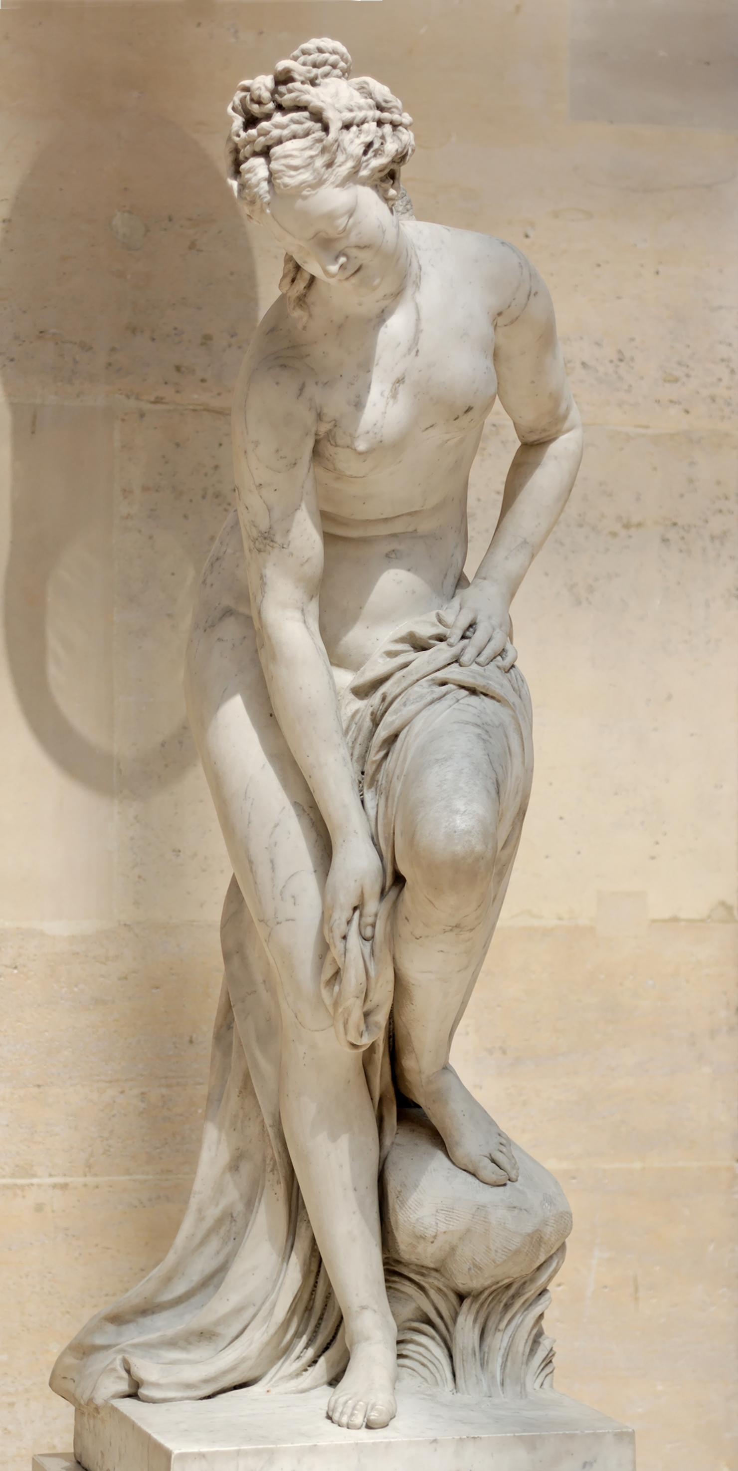 Bather, also known as Venus. Marble, exhibited at the Salon of 1767. Louis XV of France presented Madame Du Barry with the statue in 1772; she placed it in the gardens of her castle at Louveciennes.